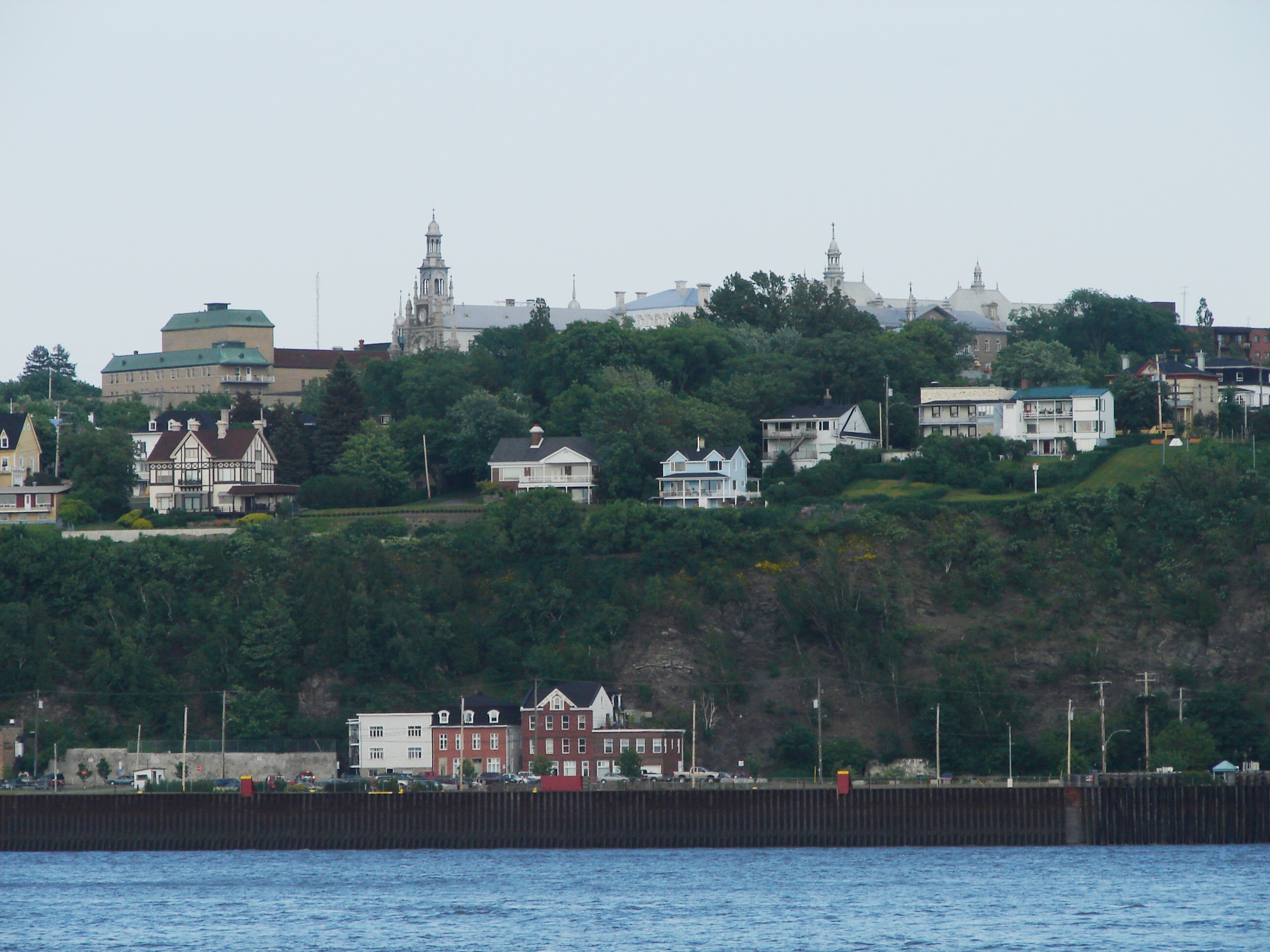 Author: Miguel Tremblay Date: June 17th 2006 Source: Photo taken by me on the ferry between Quebec city and Lévis. Place: Lévis, Québec, Canada.